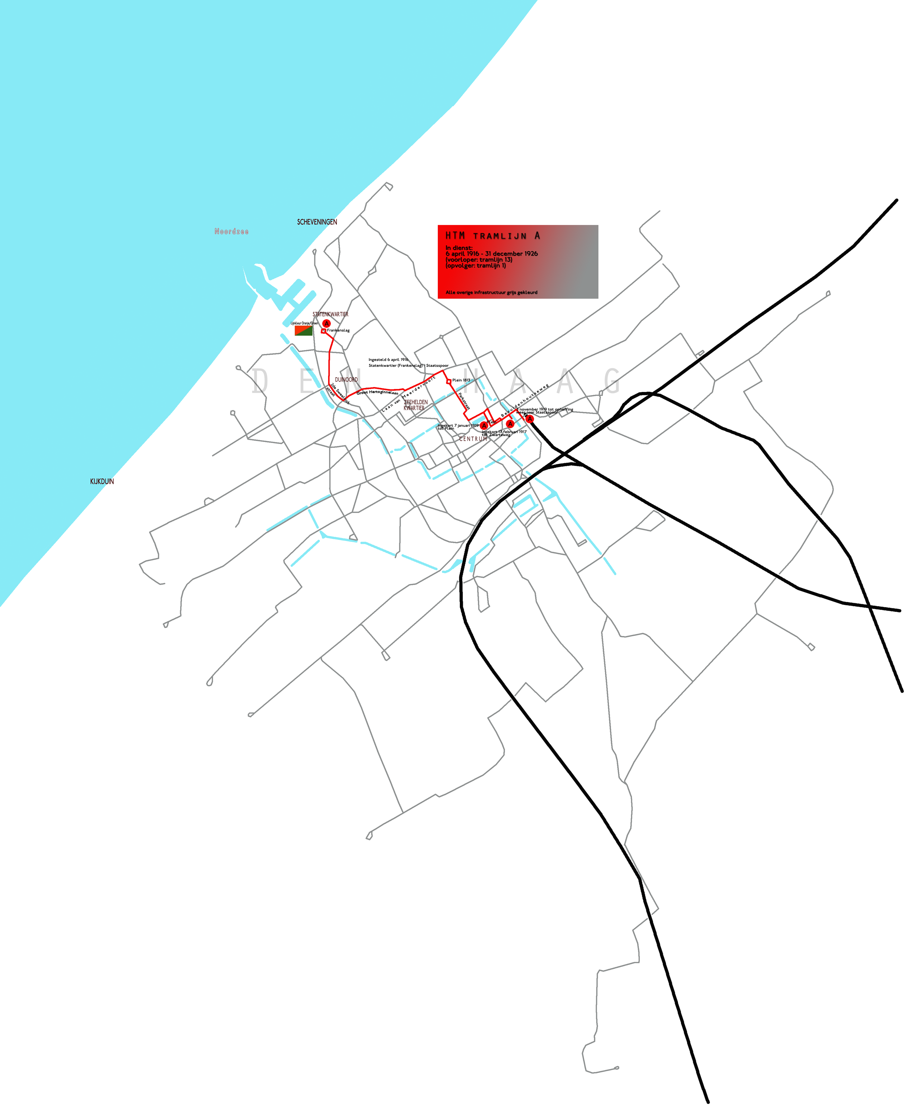 Map of The Hague's tram route A